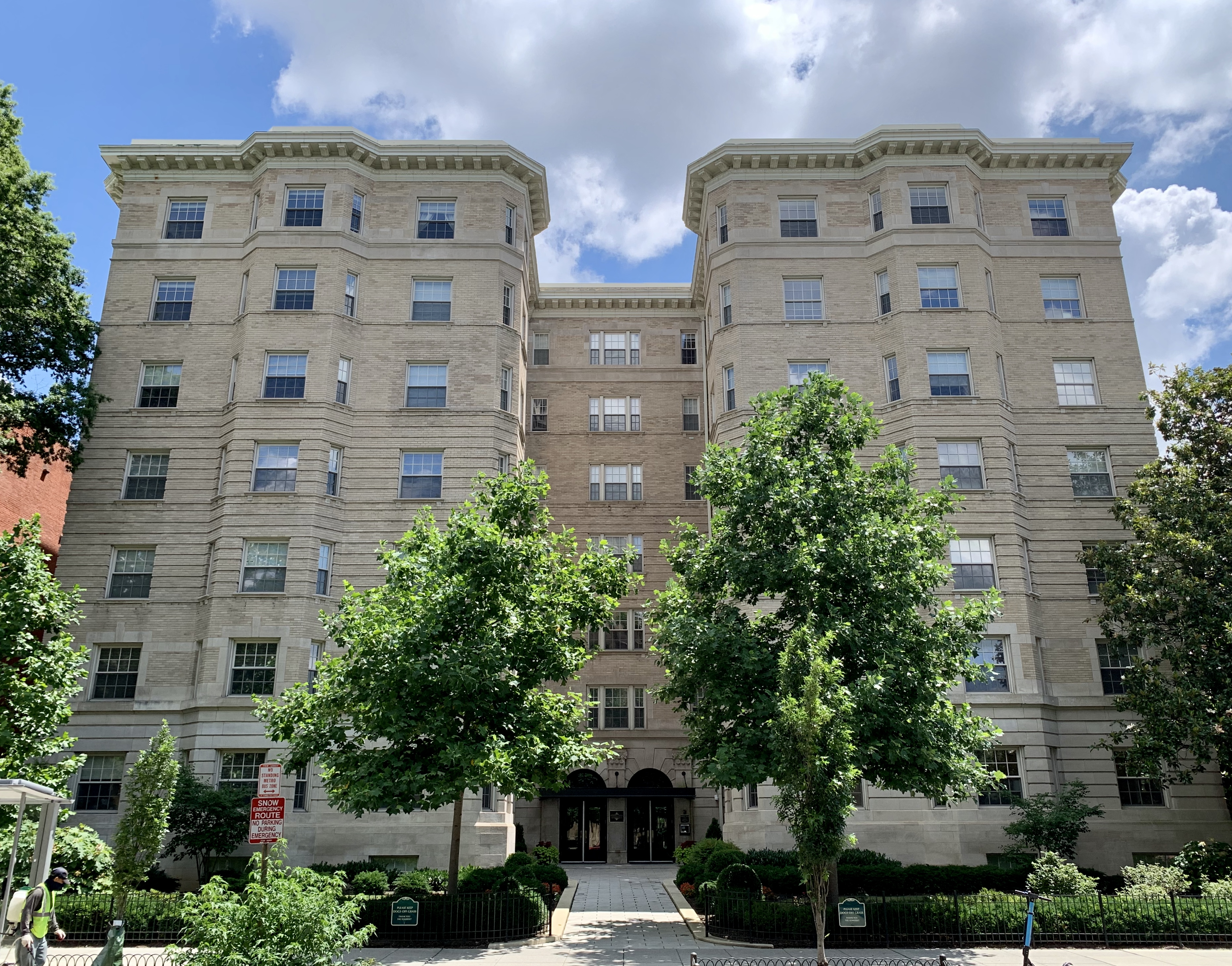 Somerset House located at 1801 16th Street NW in Washington, D.C. Designed by Frank Russell White for real estate developer Harry Wardman, the building was completed in 1916. Somerset House is a contributing property to the Sixteenth Street Historic District.